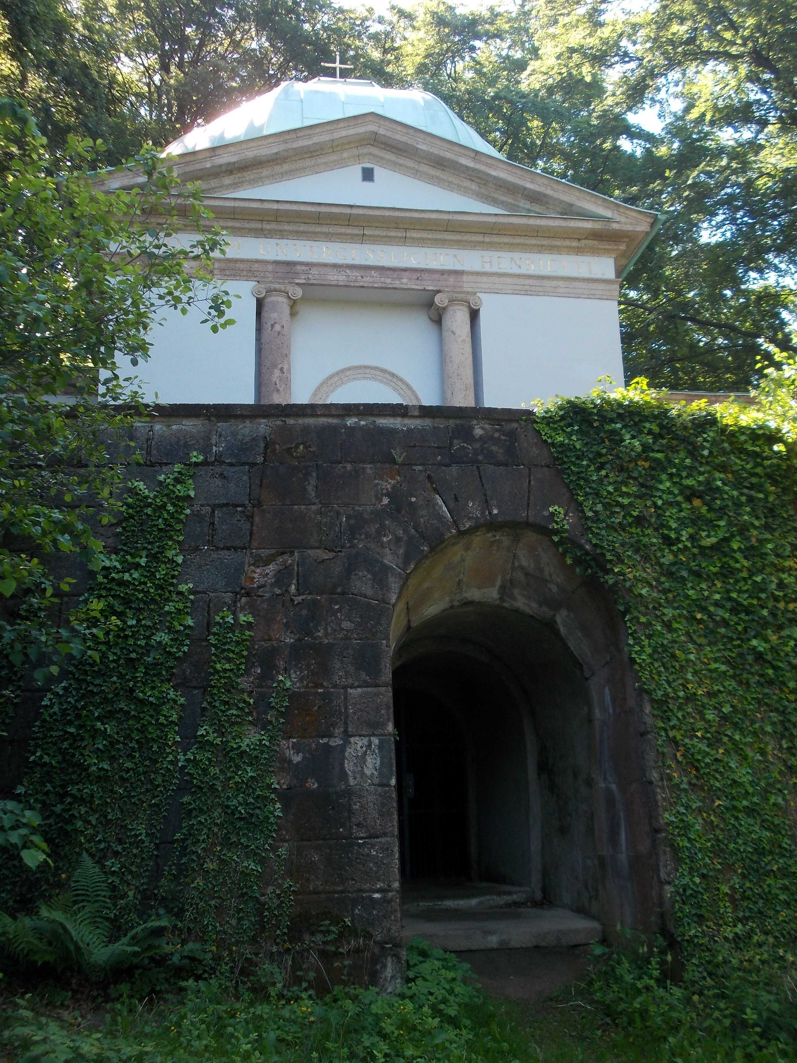 Mausoleum in Grünfeld Park (Waldenburg, Zwickau district, Saxony)